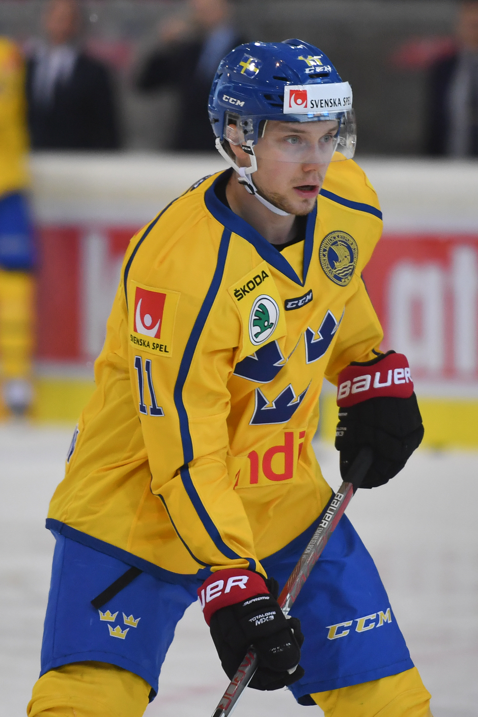 6/4/2017, Vienna, Austria, Sport, Ice Hockey, Friendly match Austria vs Sweden.